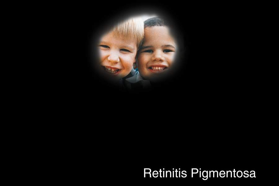 Description: A scene as it might be viewed by a person with retinitis pigmentosa. Credit: National Eye Institute, National Institutes of Health Ref#: EDS07